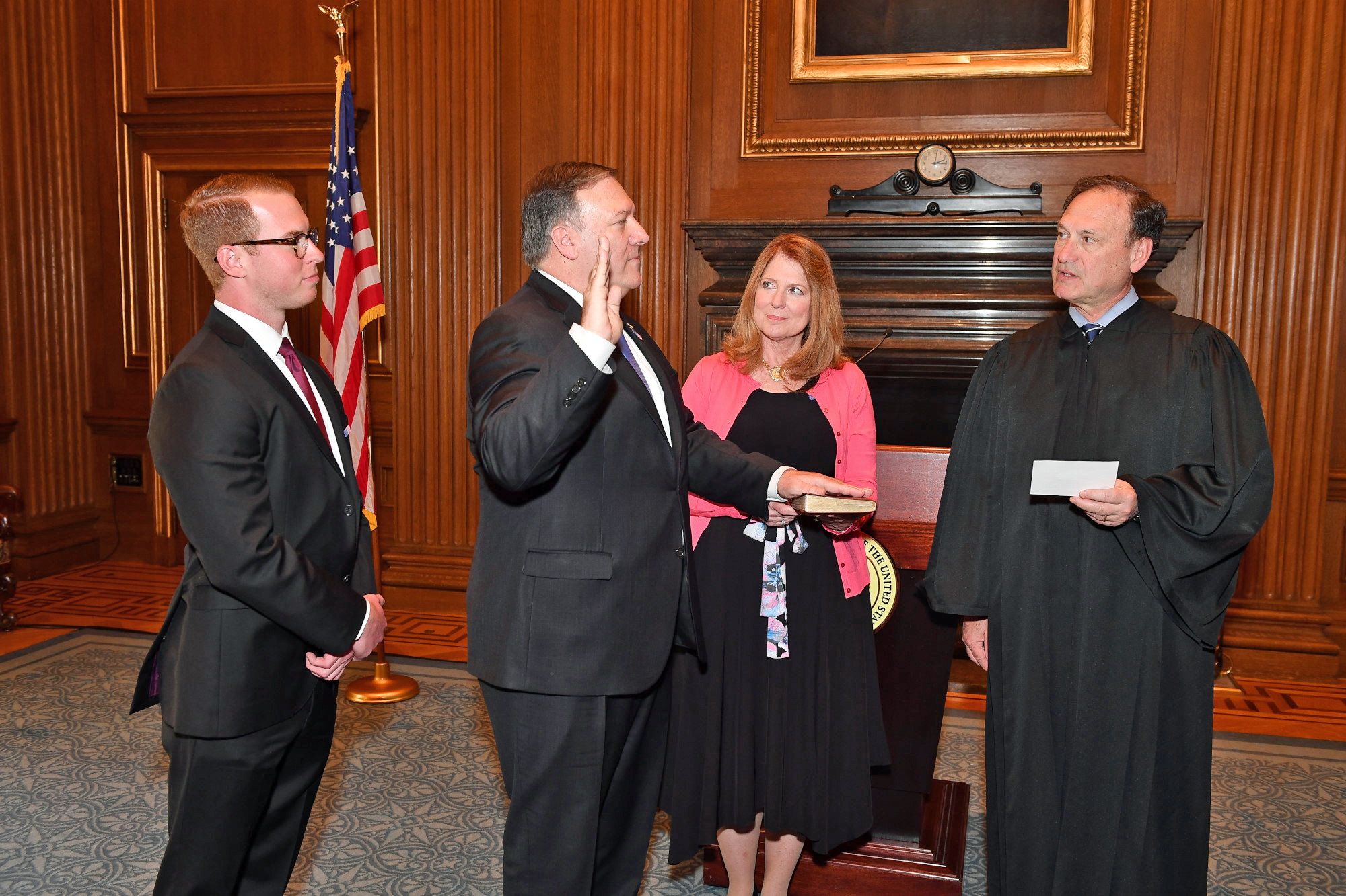 Supreme Court Justice Alito Officiates the Swearing-In Ceremony for Secretary of State- Designate Pompeo U.S. Secretary of State- designate Mike Pompeo is sworn-in as the 70th Secretary of State by Supreme Court Justice Samuel Alito in the West Conference Room of the Supreme Court in Washington, D.C. on April 26, 2018. [State Department photo/Public Domain]